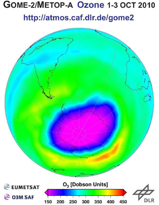 Measurements by GOME-2 (Global Ozone Monitoring Experiment), an atmospheric sensor on board the EUMETSAT MetOp-A satellite, make it possible to determine the thickness of the Ozone Layer, that is, the total amount of ozone in the atmosphere [in dobson units; DU]. This image shows the Ozone Hole over the south polar region from 1 to 3 October 2010, with ozone figures substantially below 150 dobson units. The Ozone Hole extends across most of Antarctica.